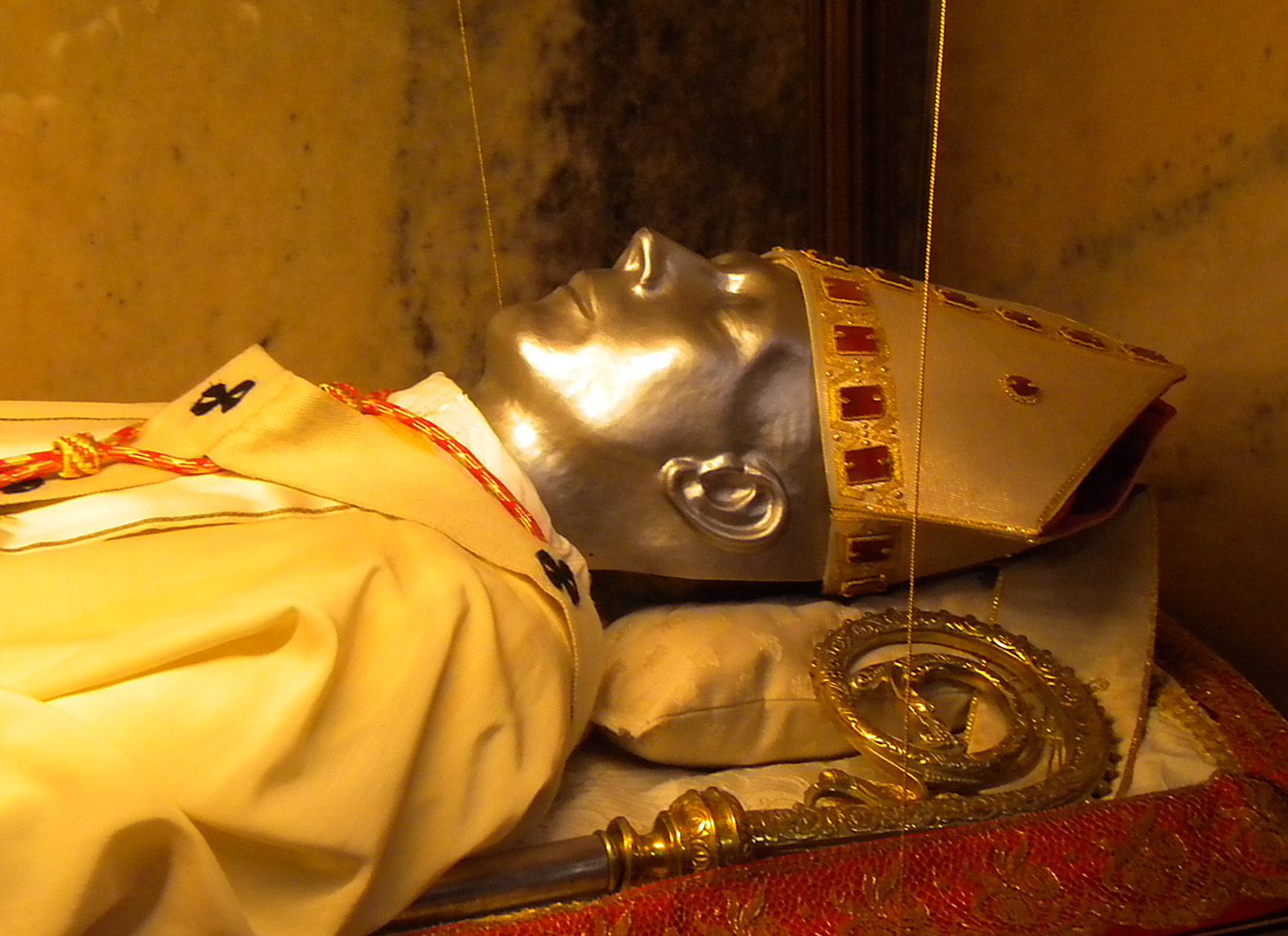 The body of Cardinal Schuster in Duomo of Milan